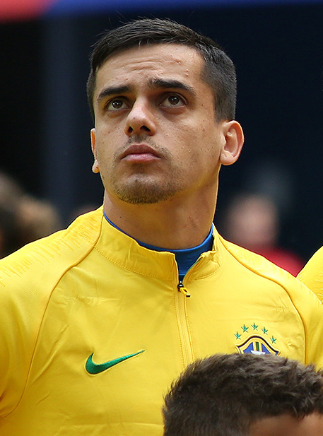 Brazilian footballer Fagner on 22 June 2018, before the 2018 FIFA World Cup group stage match between Brazil and Costa Rica.